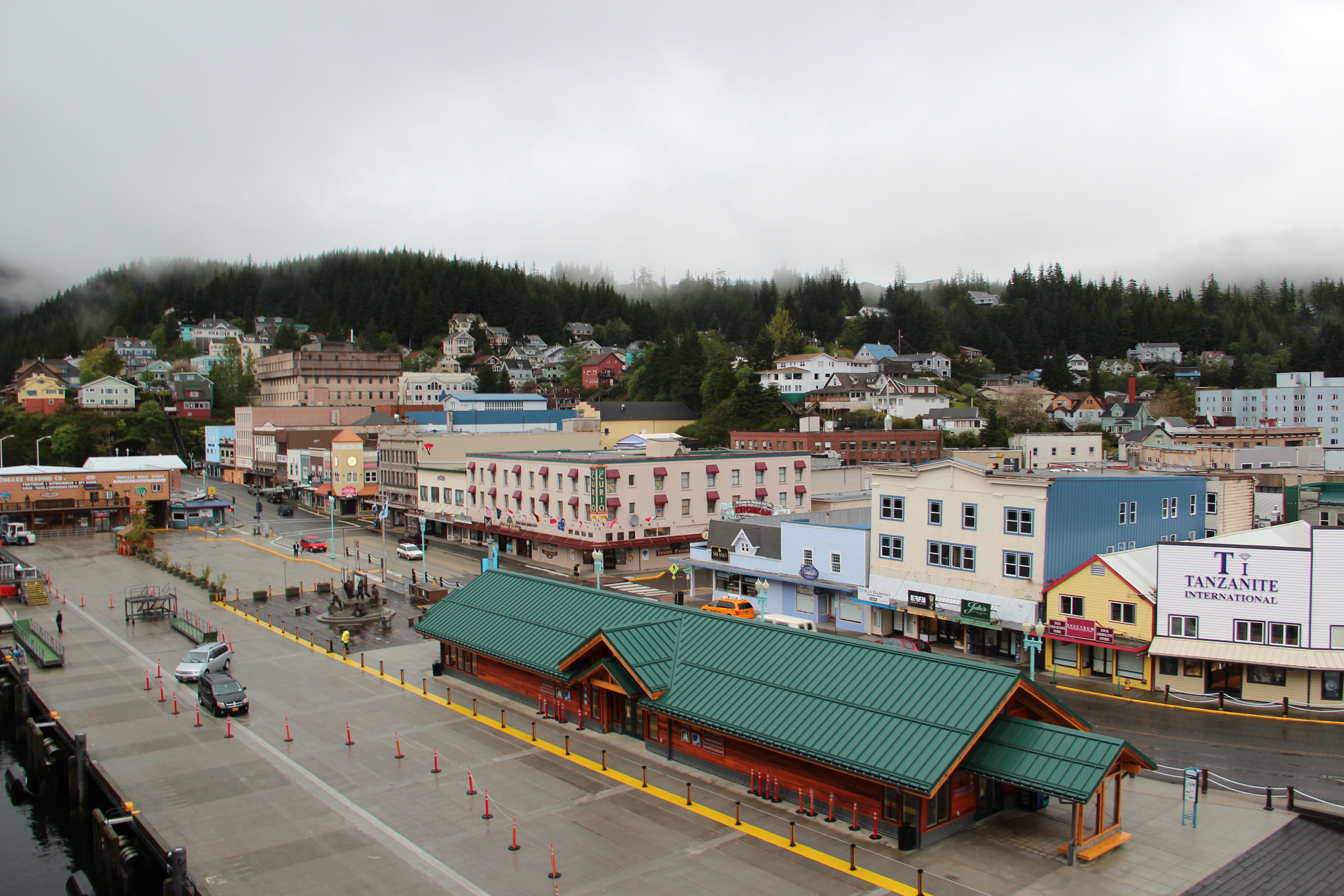 Downtown Ketchikan